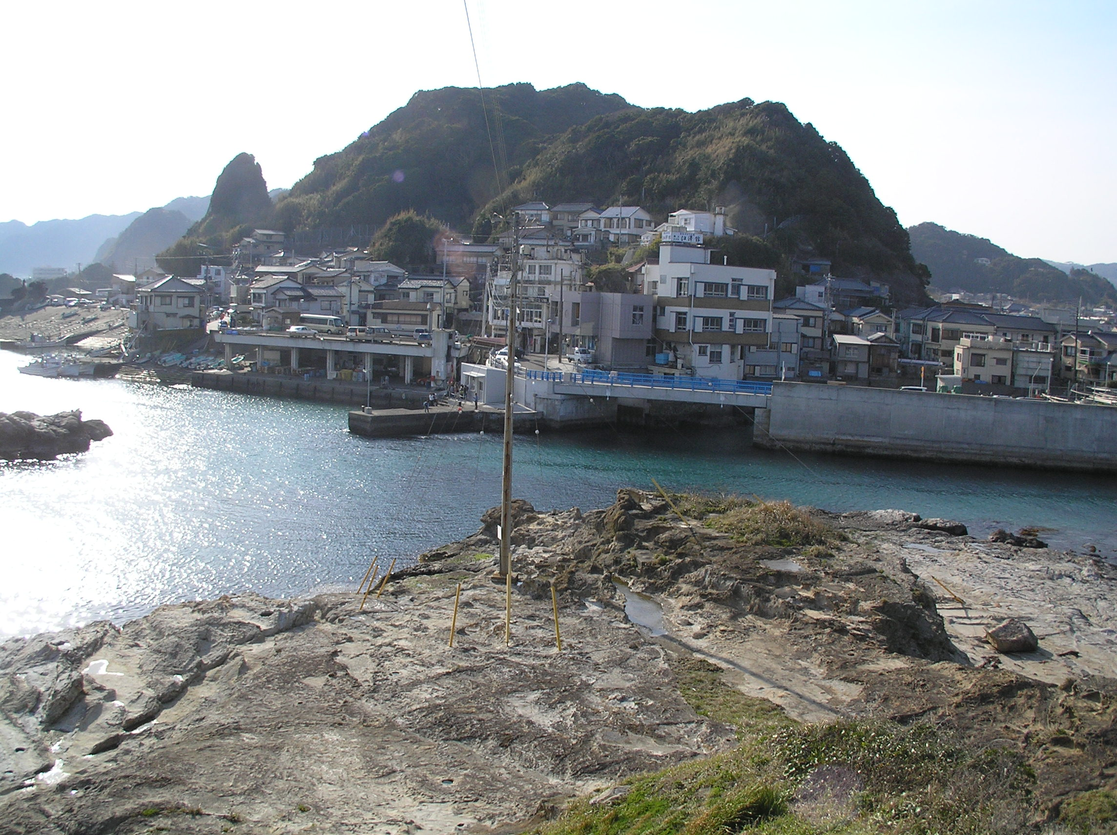 Futomi fishing port seen from Niemonjima.